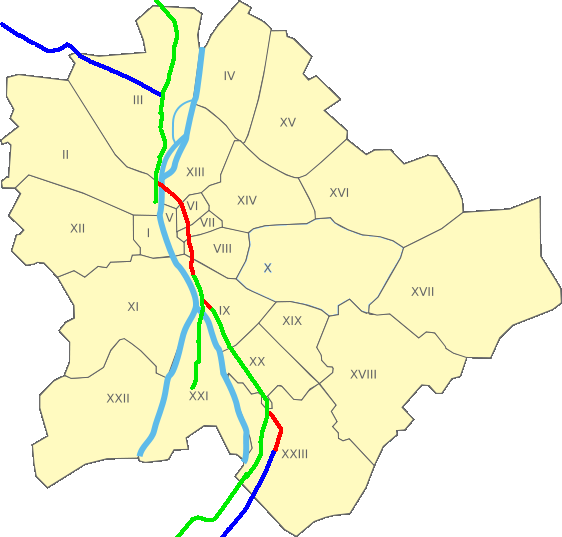 Ther proposed underground line 5, Budapest, Hungary ██ = Current suburban rail lines (HÉV) ██ = Proposed tracks ██ = Interregional railways